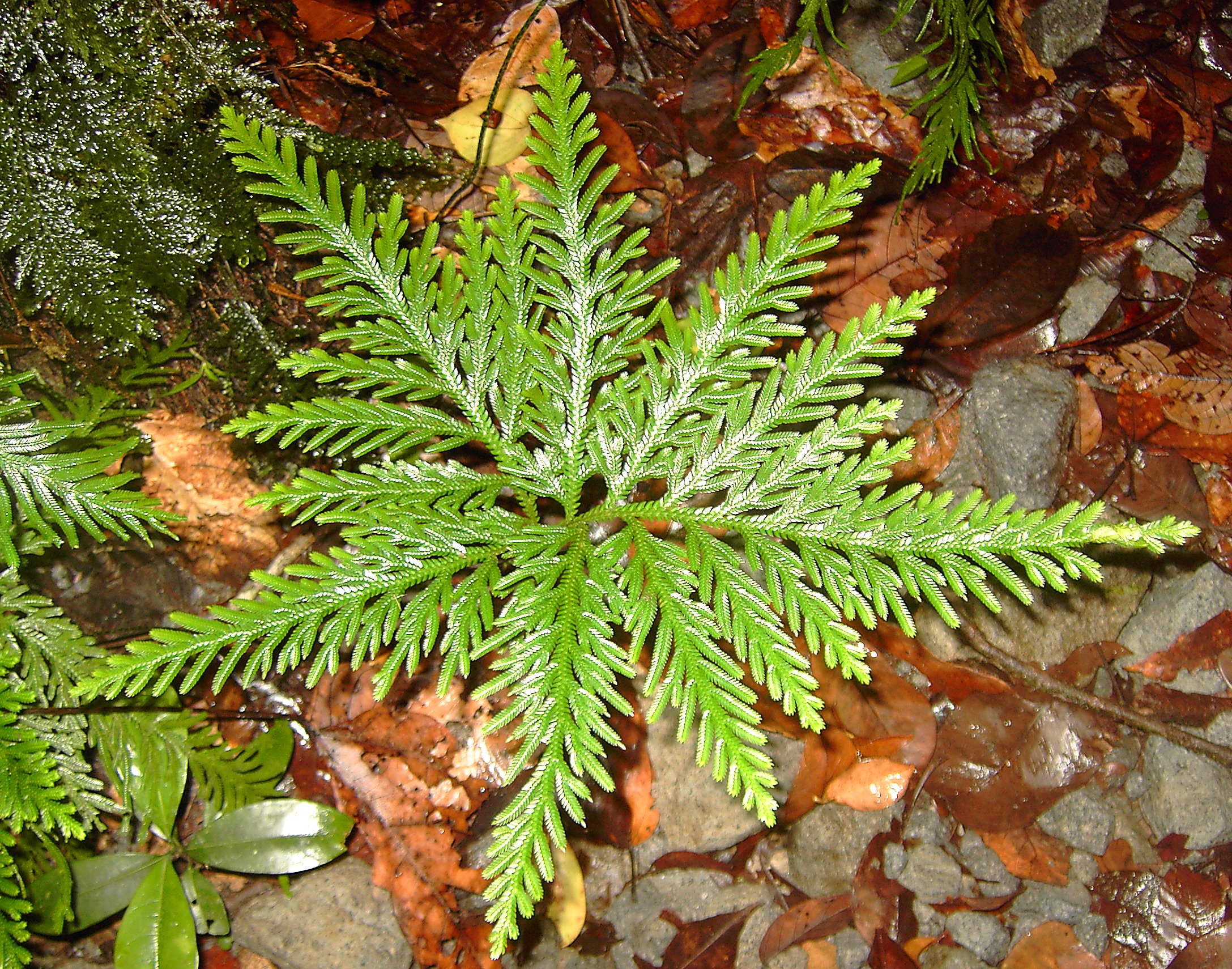 On the rainforest floor at Emerald Pool, Dominica, W.I.